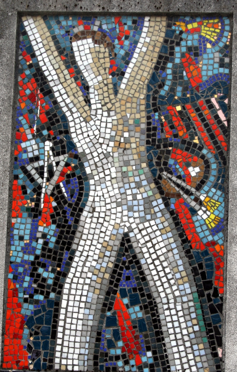 Mosaic by Edo Murtić (1921 -2005), 2nd half of 20th century work